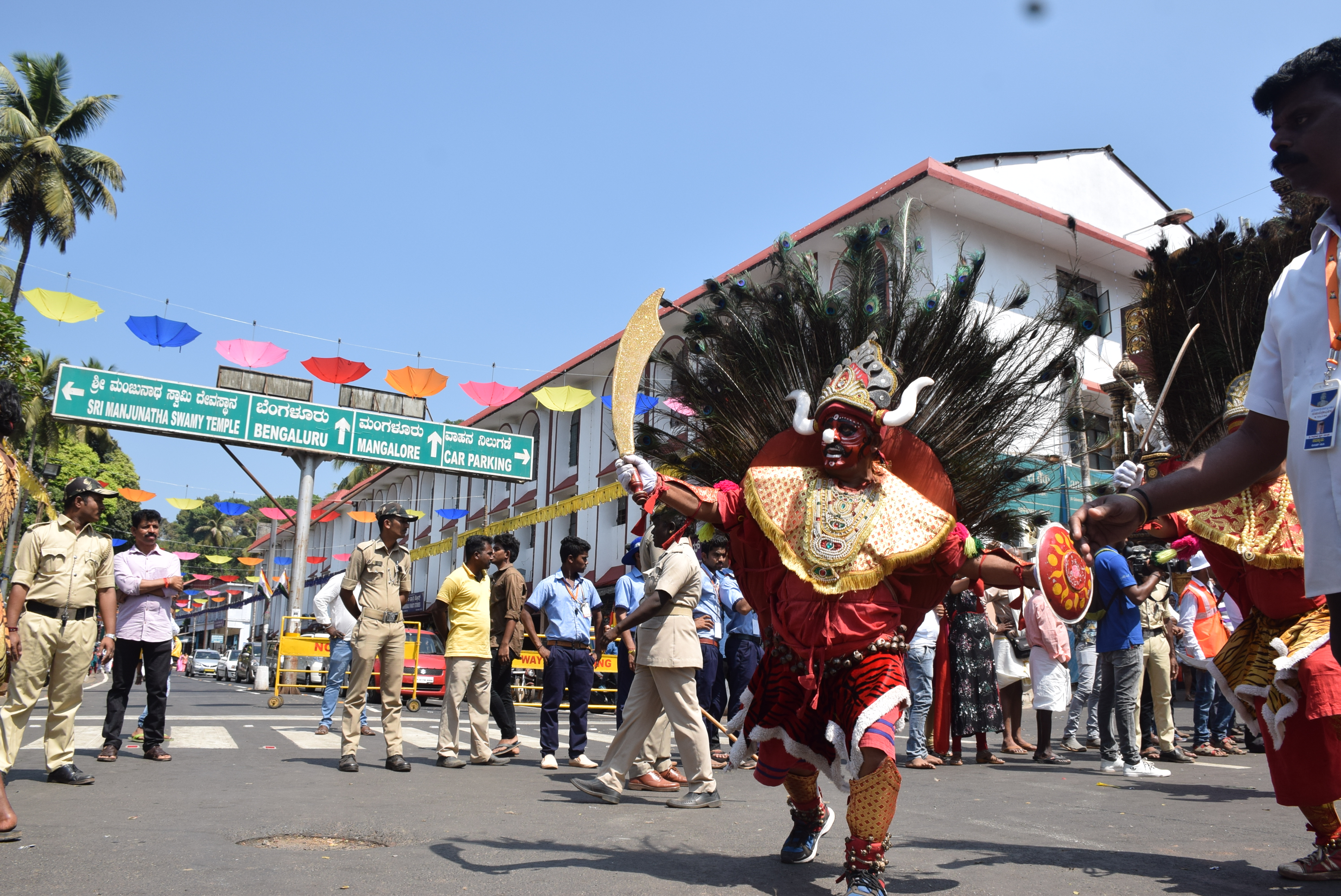 Bedara Vesha is a folk dance performed days before Holi night in Sirsi town of Karnataka. This photo has been taken in the country: India